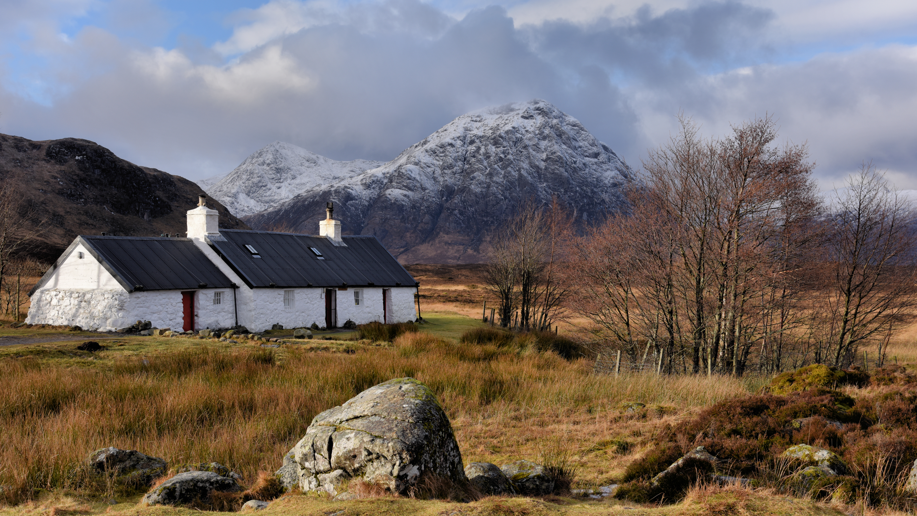 A view of Blackrock Cottage on Rannoch Moor with Buachaille Etive Mor in the background